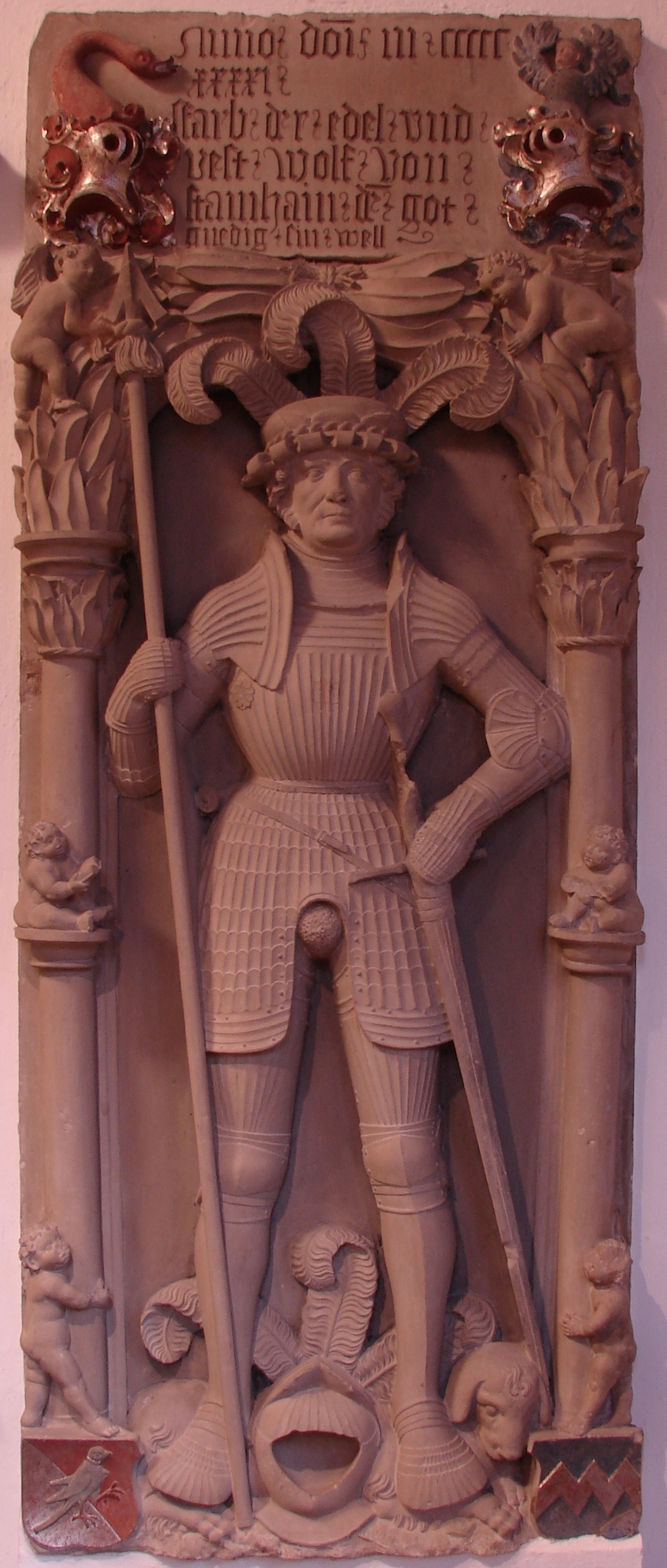 Freiberg am Neckar, epitaph for Wolf von Stammheim, †1541, in the Nikolauskirche. The inscription above the sculpture says: Anno domini MCCCCCXXXXI starb der edel und vest wolf von stamhain dem got gnedig sin well - 1541 A.D. died the noble and firm Wolf von Stamhain to whom God shall have mercy.